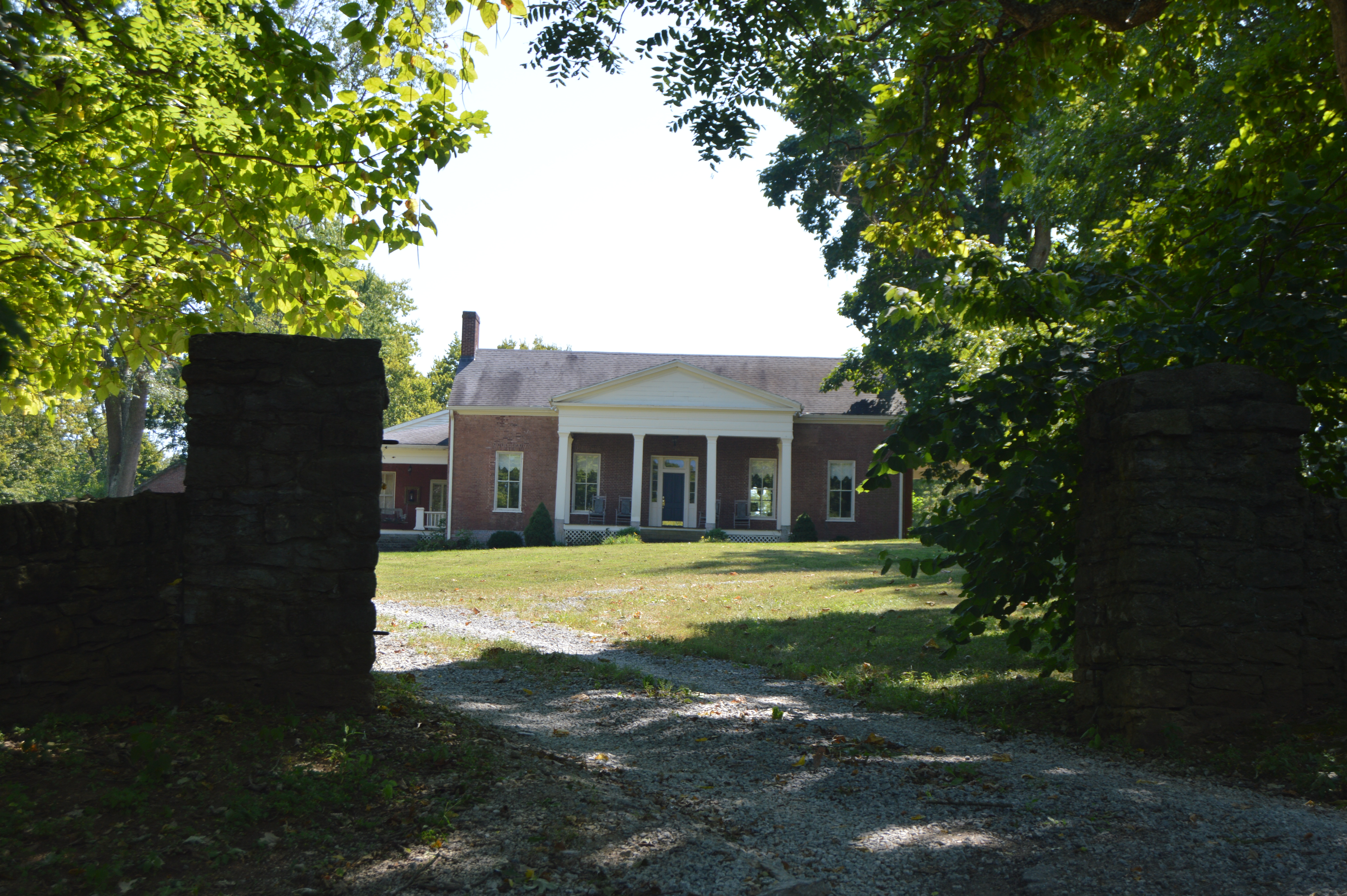 Front of the Owen-Gay Farmhouse, located on Gay Road northeast of Winchester in east-central Kentucky in the United States. The camera is located in Bourbon County, as are some of the farm buildings, while the house itself is located in Clark County. Built in 1825, the house is listed on the National Register of Historic Places together with the rest of the farm.